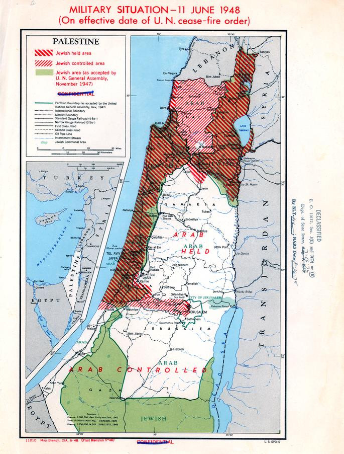 Palestine Military Situation, June 11, 1948. Truman Papers